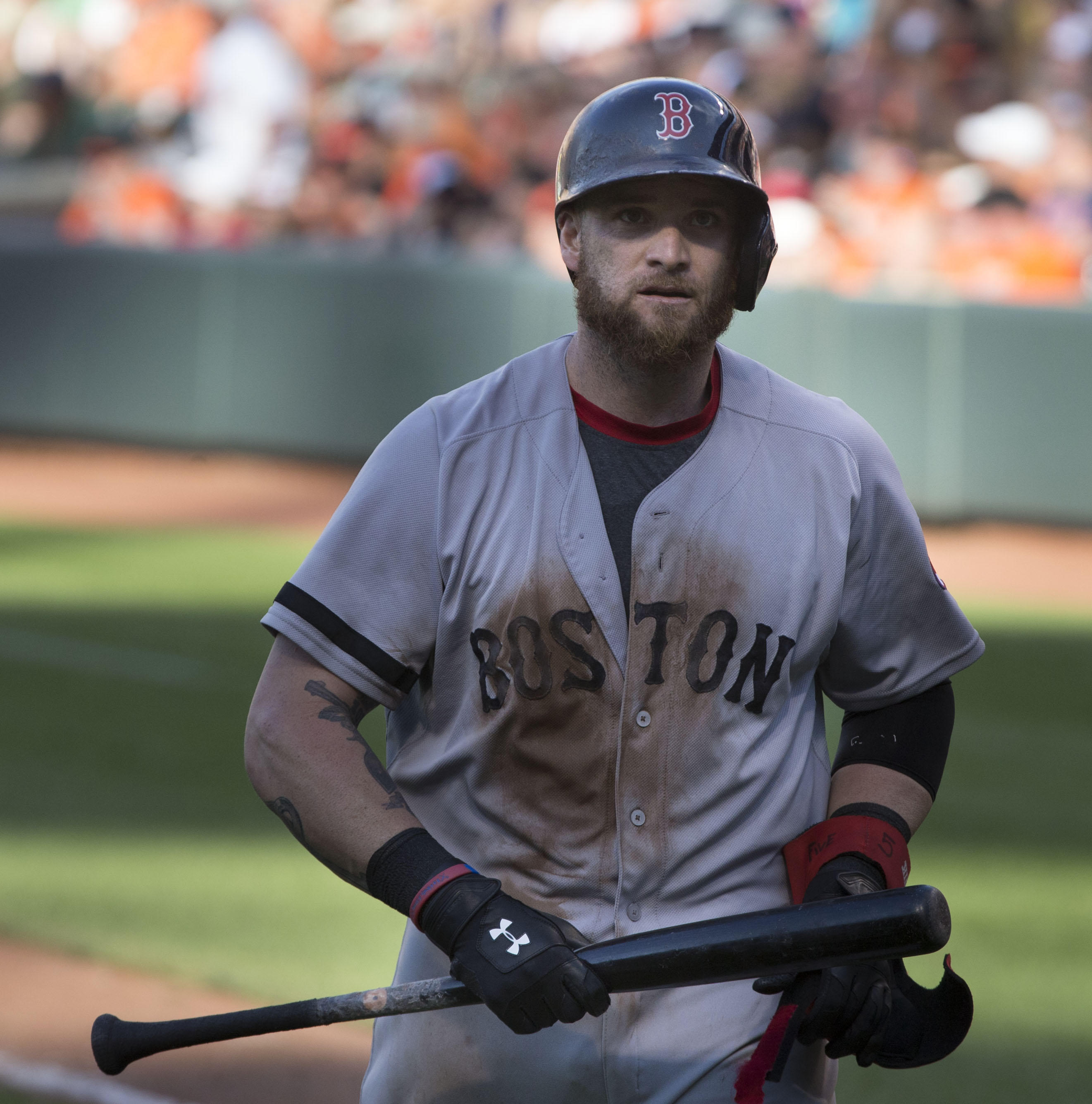 Jonny Gomes